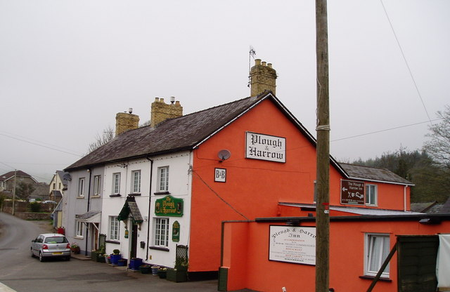 Plough & Harrow, Felinfach Four miles north of Brecon at the side of the A470.